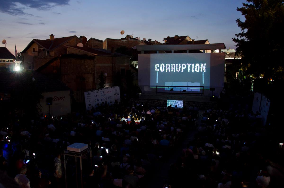 DokuFest: A still from the campaign video at Kino Lumbardhi